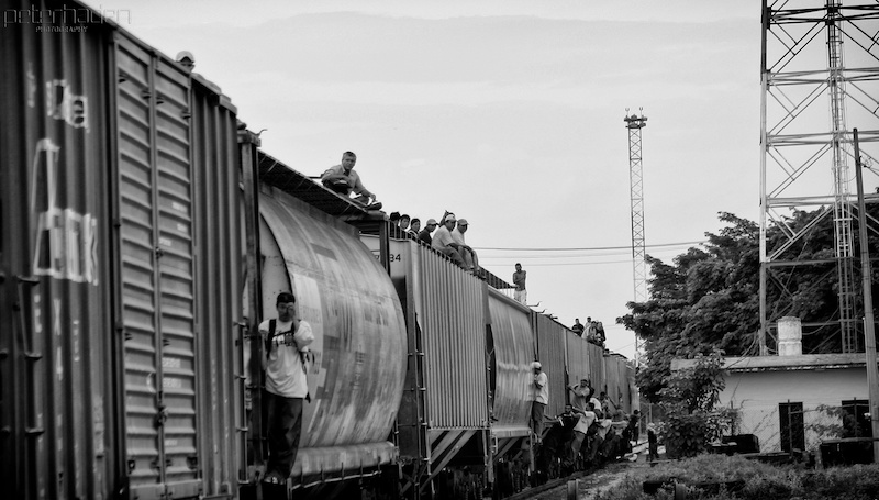 Migrants riding atop a freight train in Mexico called "The Beast"